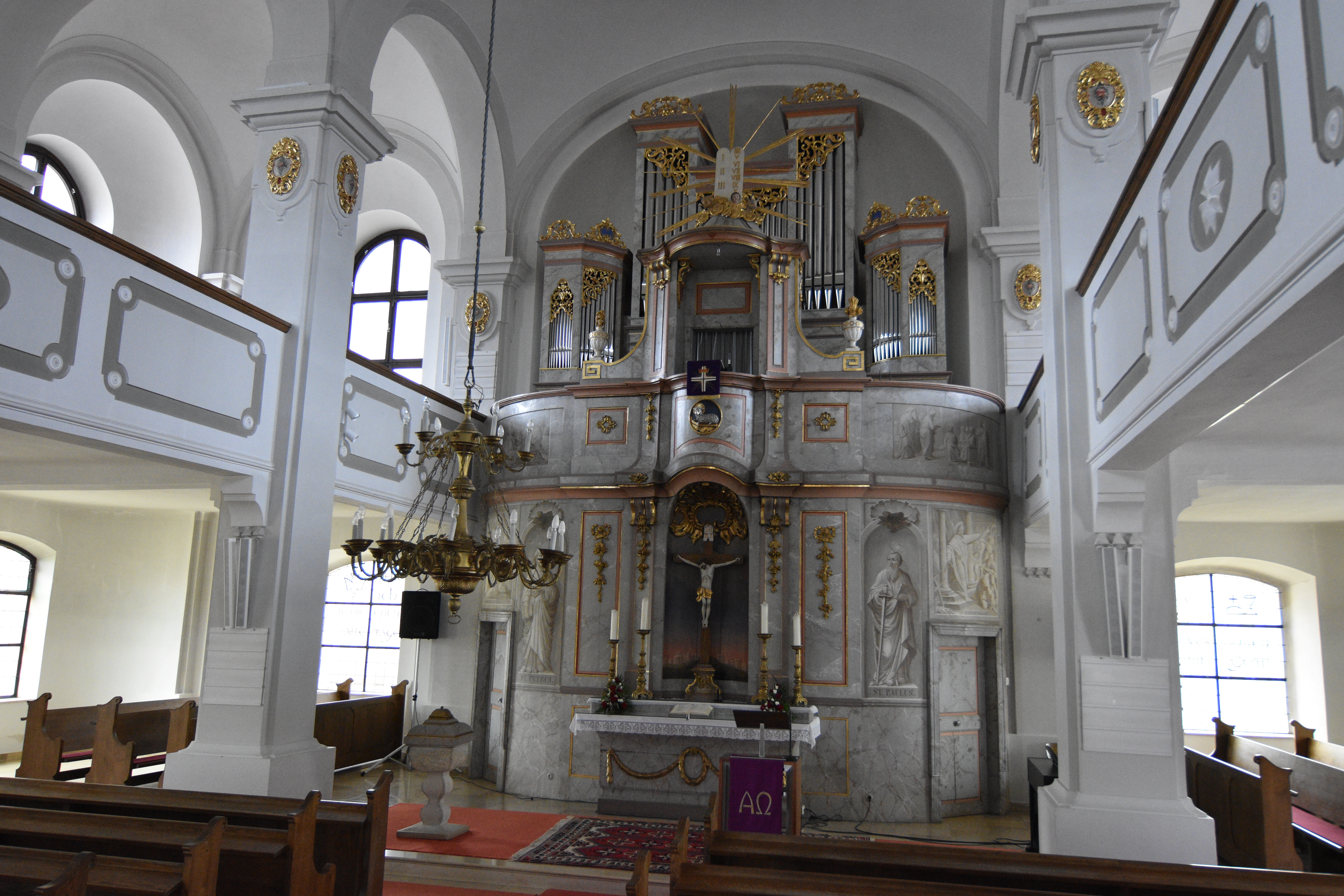 Church Evangelische Pfarrkirche Markt Allhau - Interior